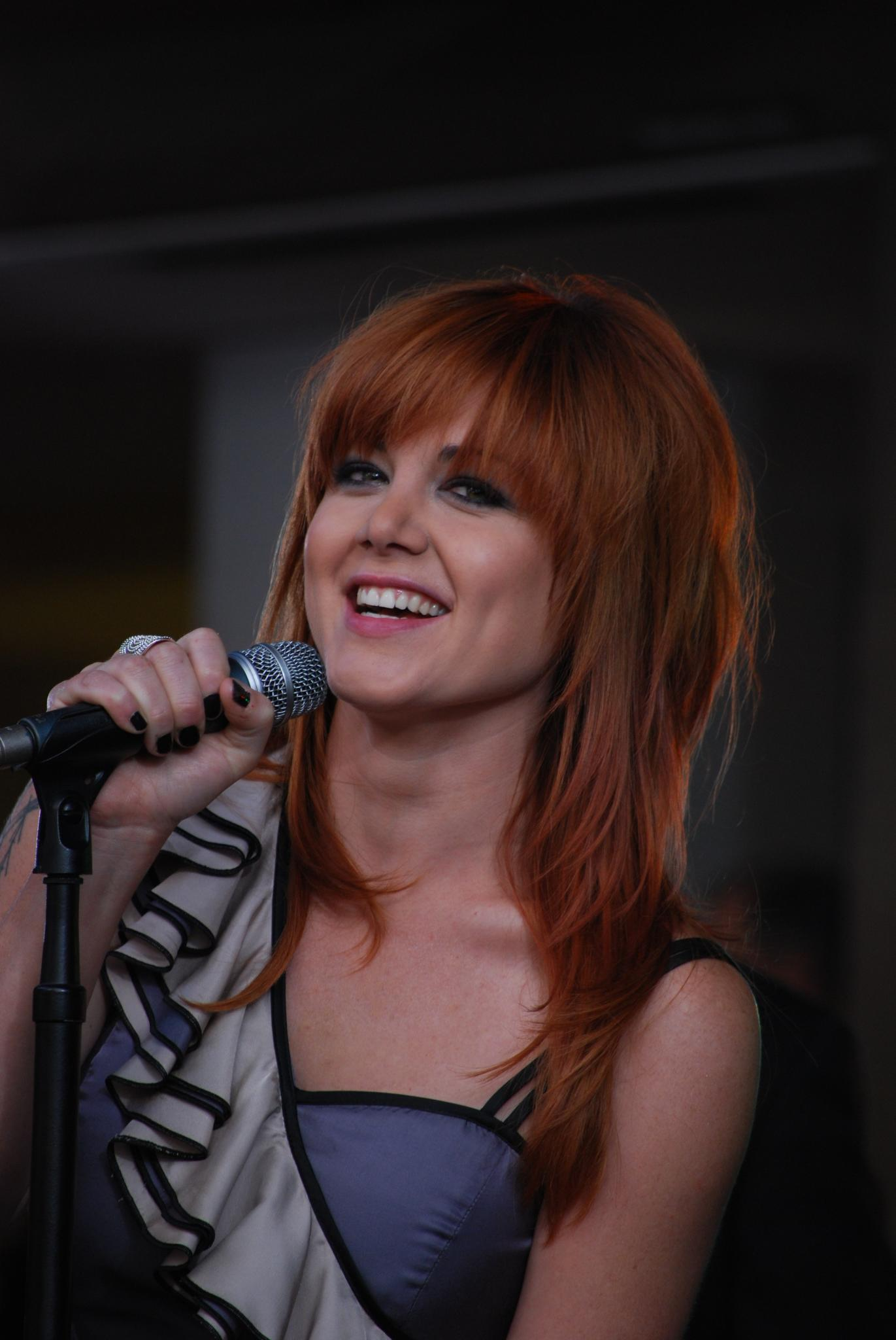 Vanessa Amorosi at the Ch9 Today Show at Bourke Street Mall